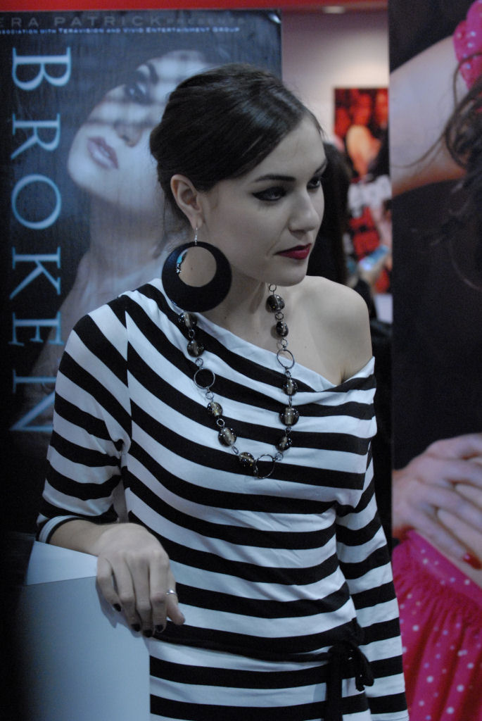 Sasha Grey at Adult Entertainment Expo 2008